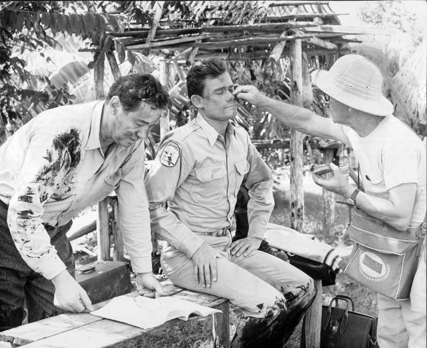 Photo of actor Ron Hayes being made up for the television series The Everglades. Hayes played Constable Lincoln Vail in the series, which was shot in south Florida. The item has no copyright markings on it as can be seen in the links above.